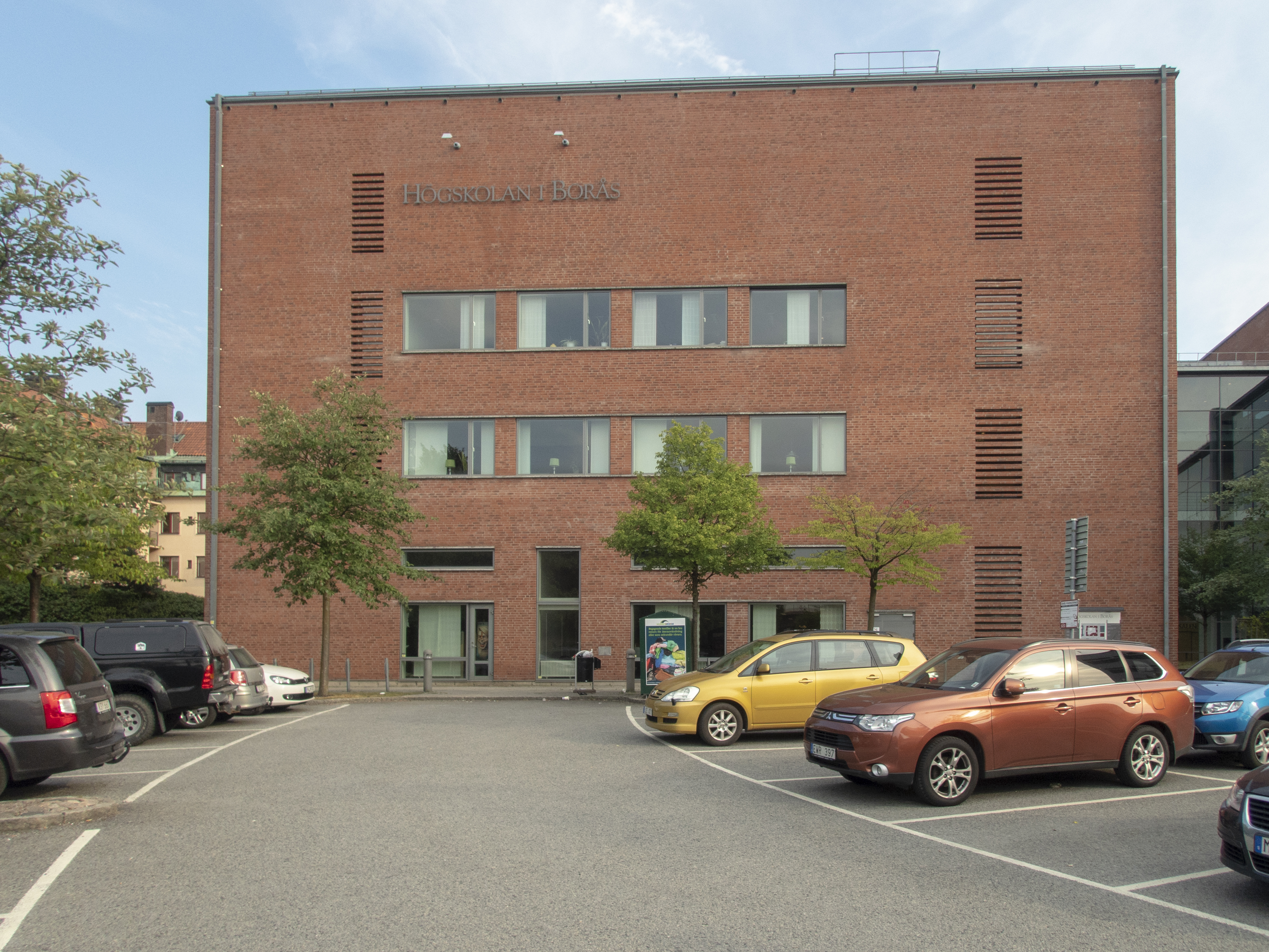 Högskolan i Borås